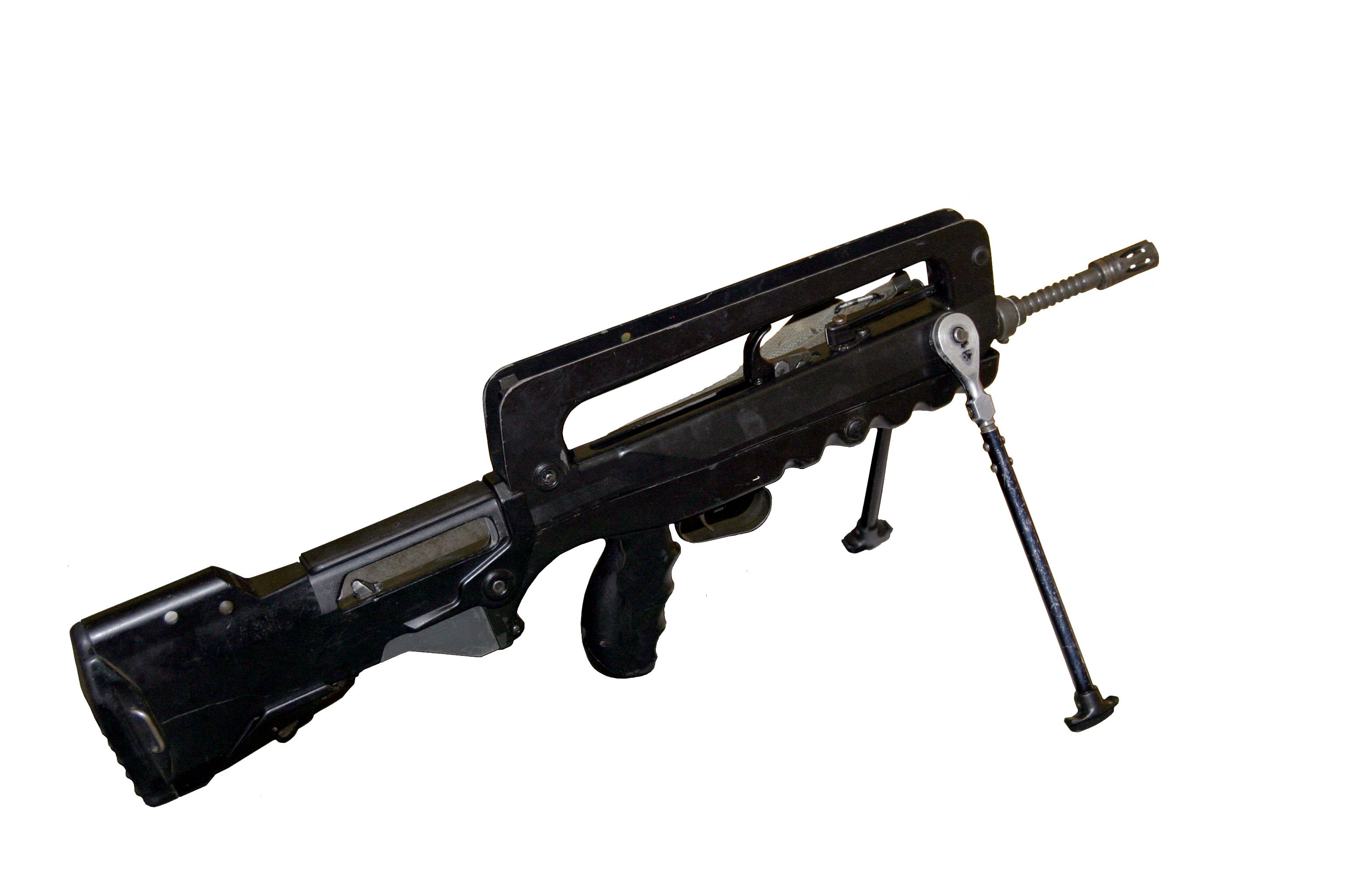 FAMAS rifle